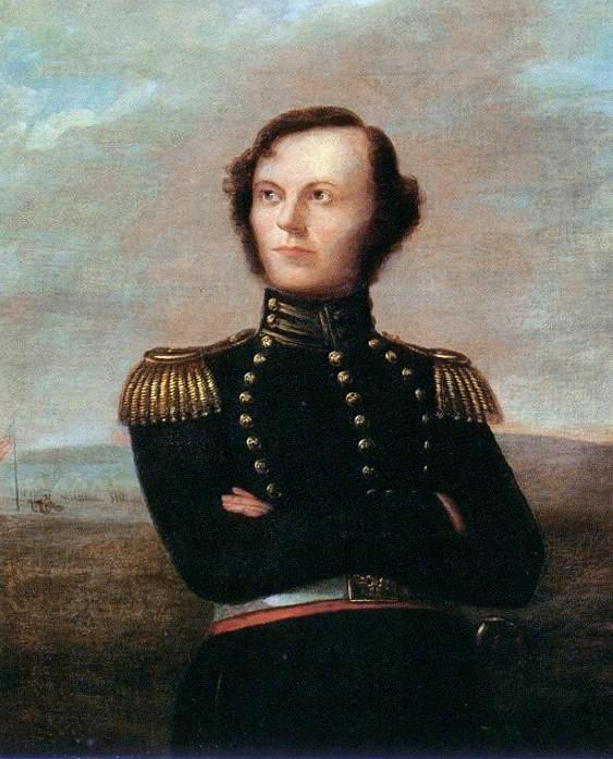 This is a portrait of James W. Fannin. According to page 134 of Exploring the Alamo Legends by Wallace O. Chariton (Republic of Texas Press, 1990), the painting is believed to have been completed while Fannin was a cadet at the US Military Academy during the 1820s. The painting is now owned by the Dallas Historical Society.